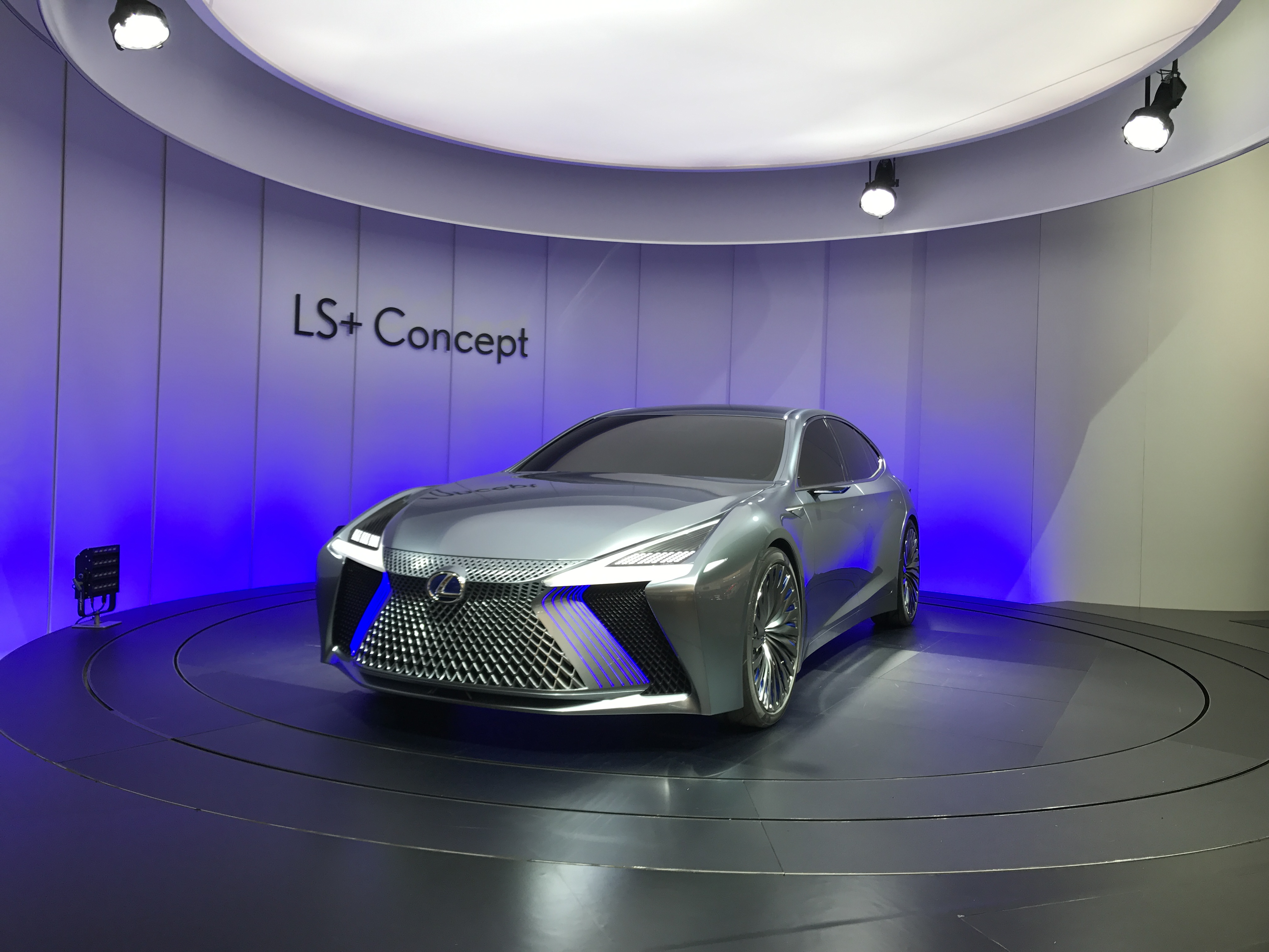 Front view of Lexus LS + concept at the 2017 Tokyo Motor Show (left angle)